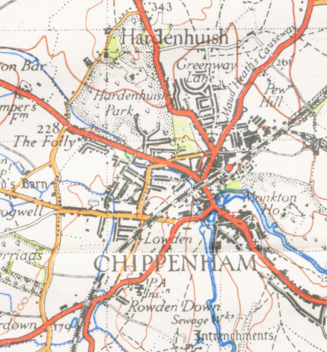 Map of Chippenham from 1946. Scale 1 inch to the mile 600DPI Sheet 156